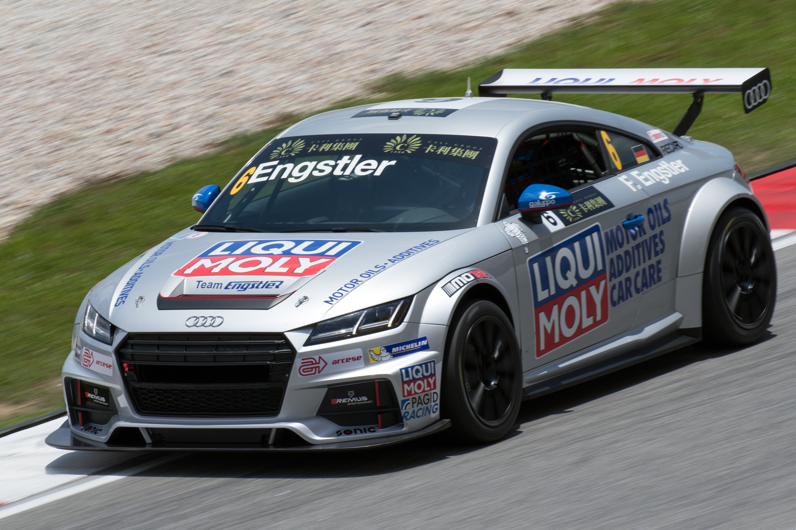 TCR International Series 2015 Rd.1 Malaysia: Franz Engstler (Engstler)